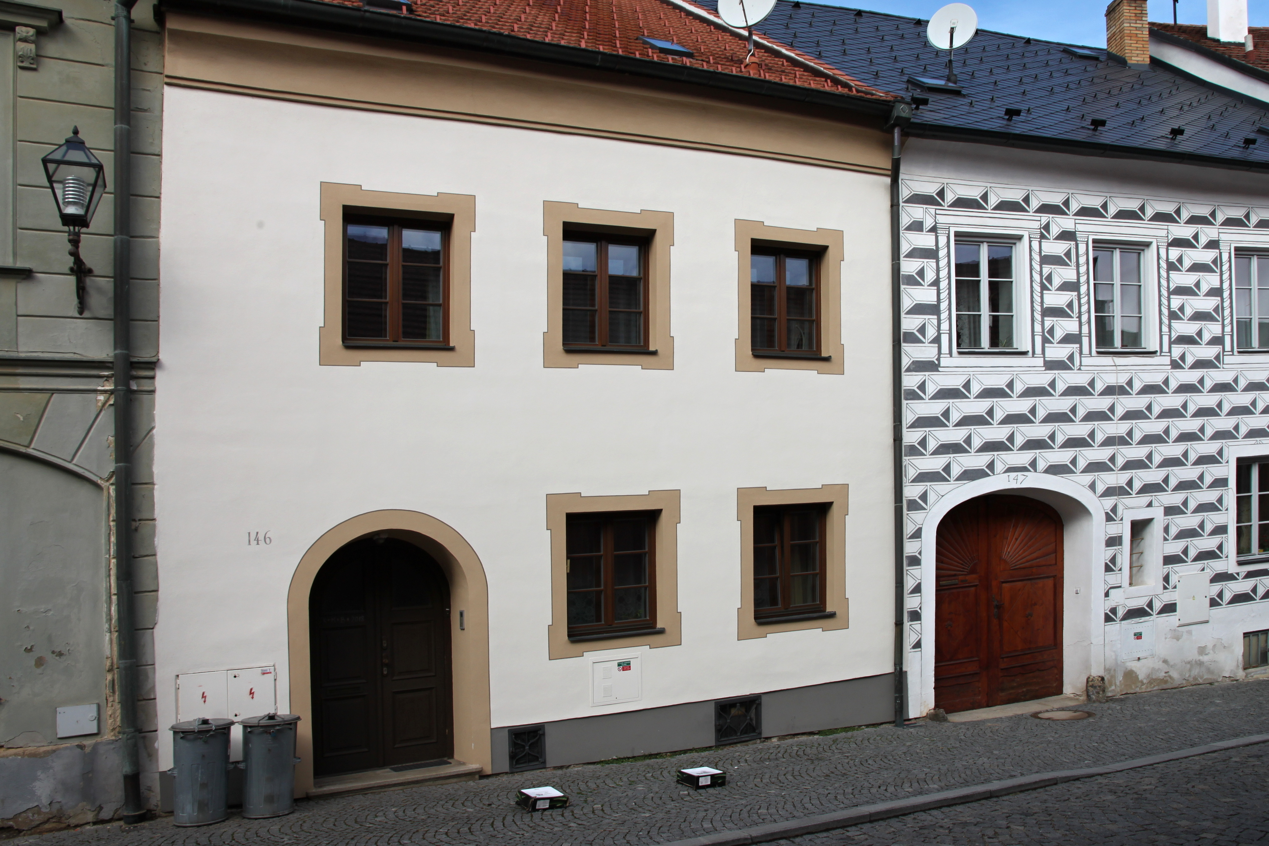 House No. 146 in Neumannova street in Prachatice. South Bohemian Region, Czechia.